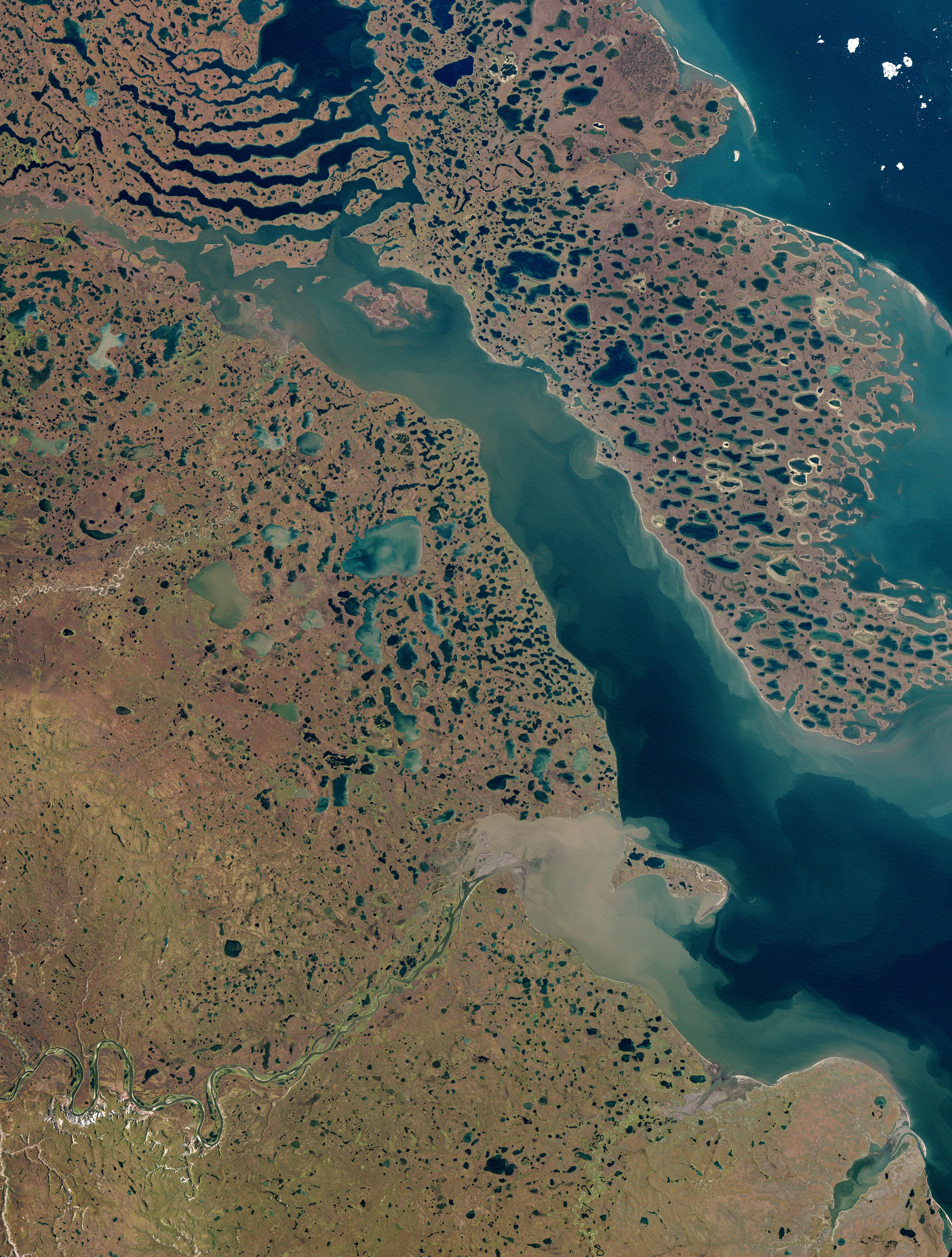 Natural-colour image of a region east of Alaska, along the Beaufort Sea. The area includes part of Liverpool Bay, the Eskimo Lakes, and the Tuktoyaktuk Peninsula. Tundra overlies permafrost around Liverpool Bay, but at this time of year, the nearby ocean is free of sea ice, and little if any snow is on the ground. This image has been rotated so that north is on the right.